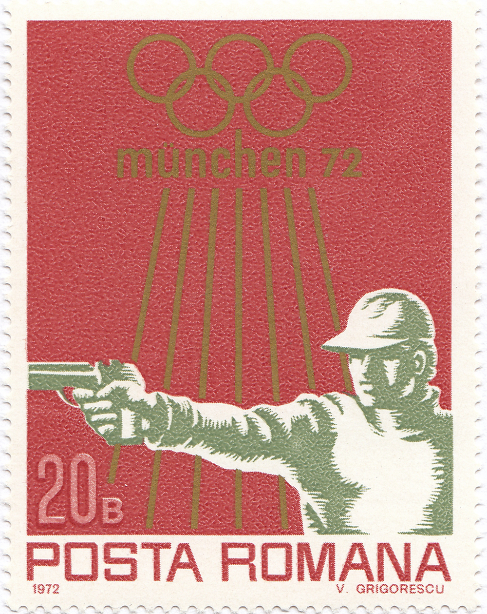 20 bani stamp issued by Poșta Română for the 1972 Summer Olympics in Munich, representing the shooting event.